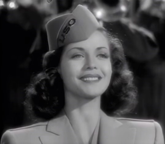 Carol Bruce in Keep 'Em Flying - trailer (cropped screenshot)